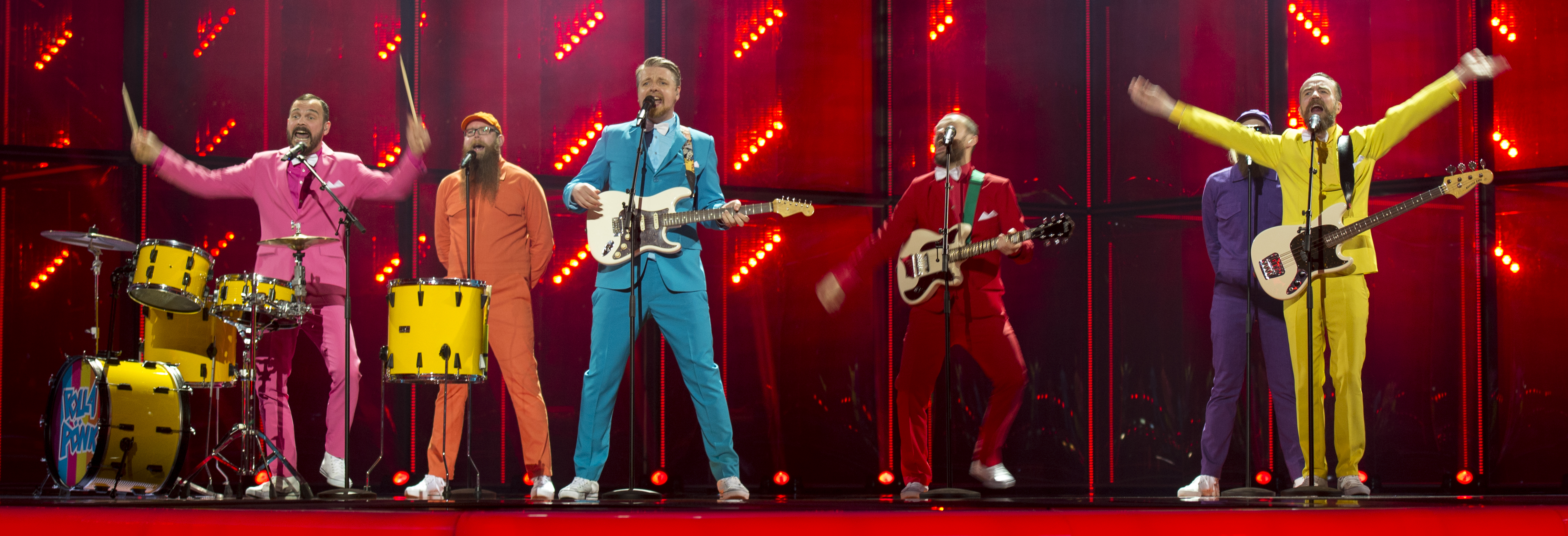 Pollapönk representing Iceland with the song "Enga fordóma" during the first dress rehearsal of the first semi final of the Eurovision Song Contest 2014 Copenhagen. (Help translate this text)